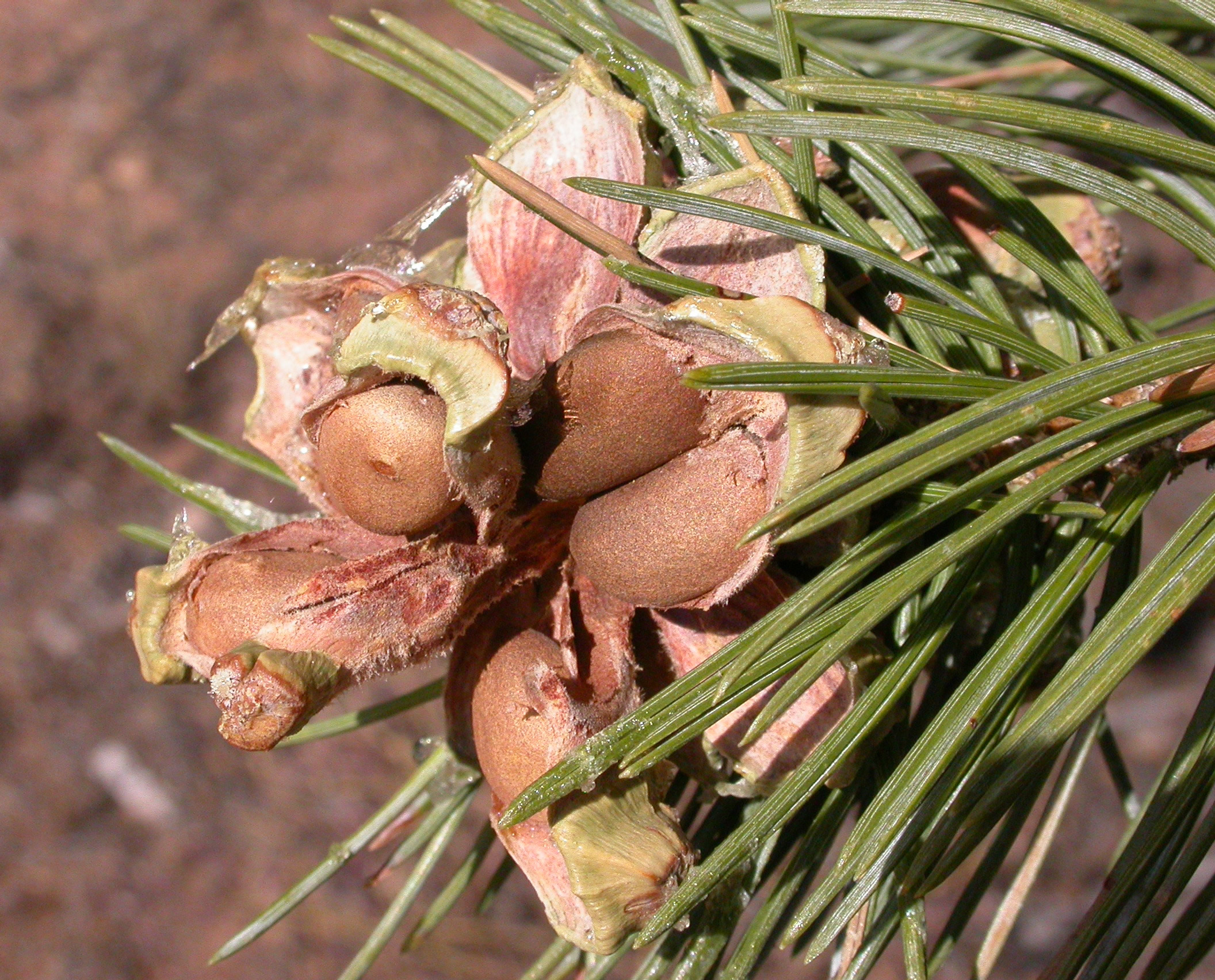 Northeast of Valle, Arizona.